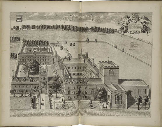 Bird's eye view of Jesus College, Cambridge by David Loggan, published in 1690